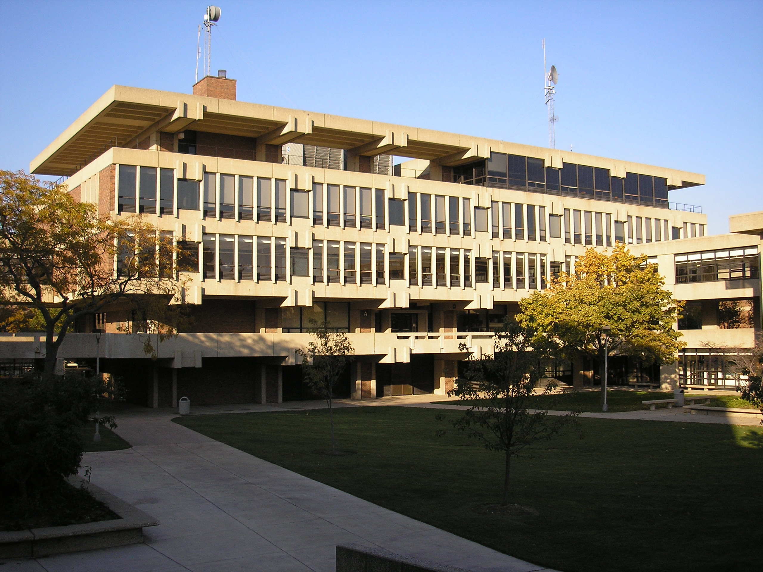 New Trier High School west campus, Northfield, Illinois, USA